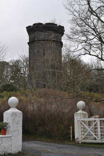 East Tower at Islay House Octagonal tower built c.1760.